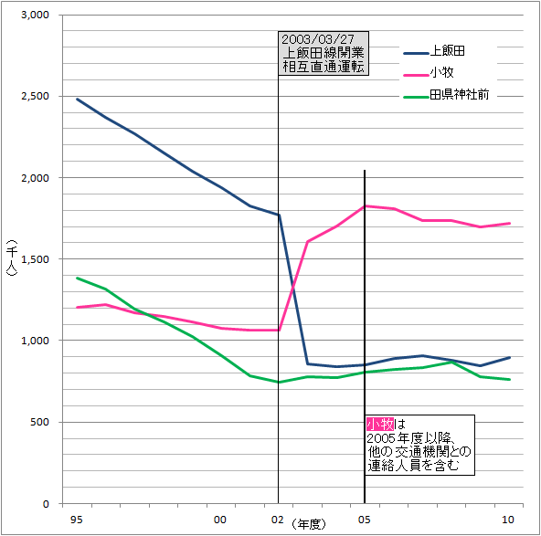 Vehicle ridership of Kami Iida, Komaki and Tagatajinja-mae Station.